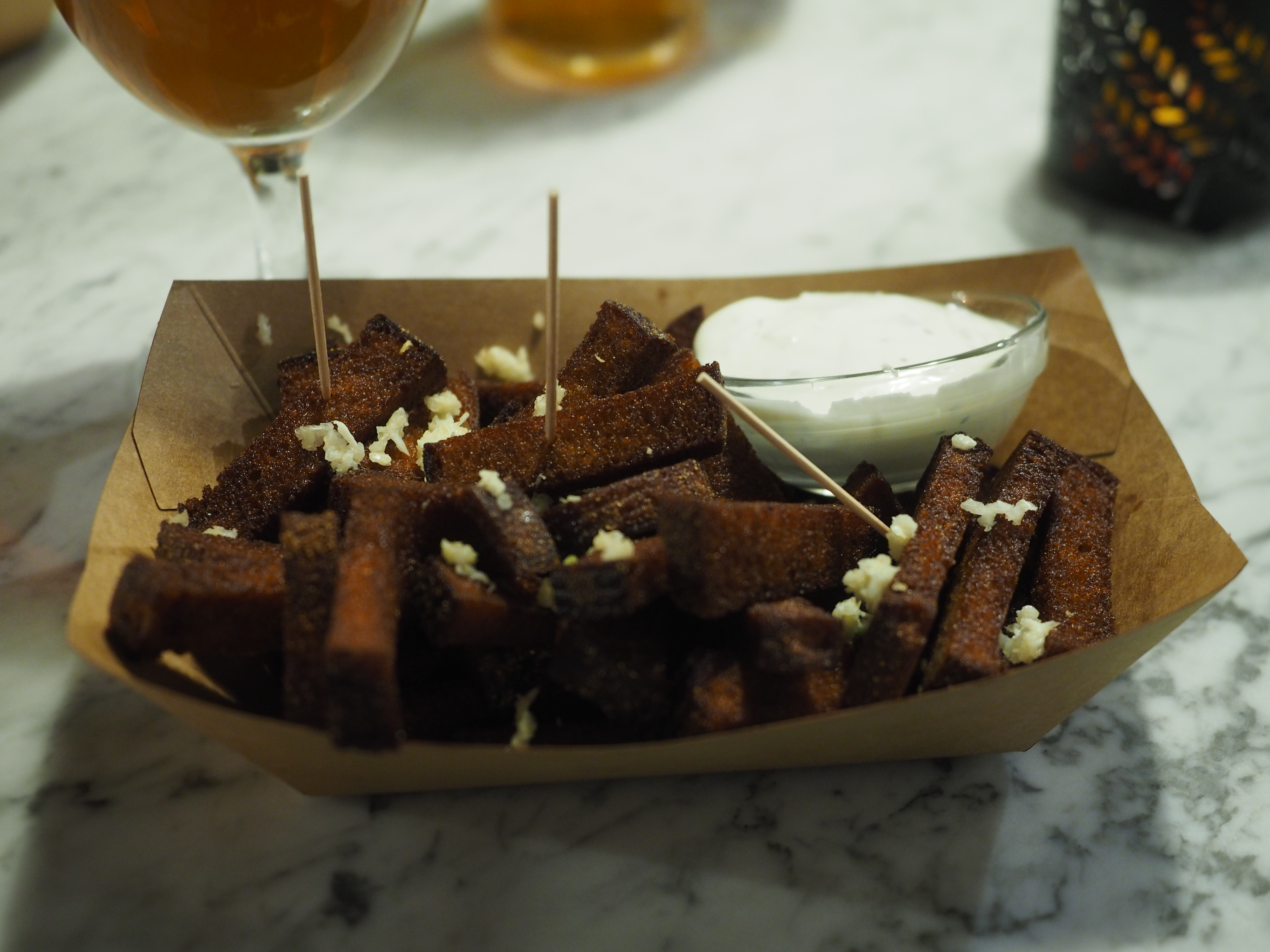 Estonian rye bread sticks with garlic, served as snacks at restaurant 100 õlle koht in Tallinn, Estonia.